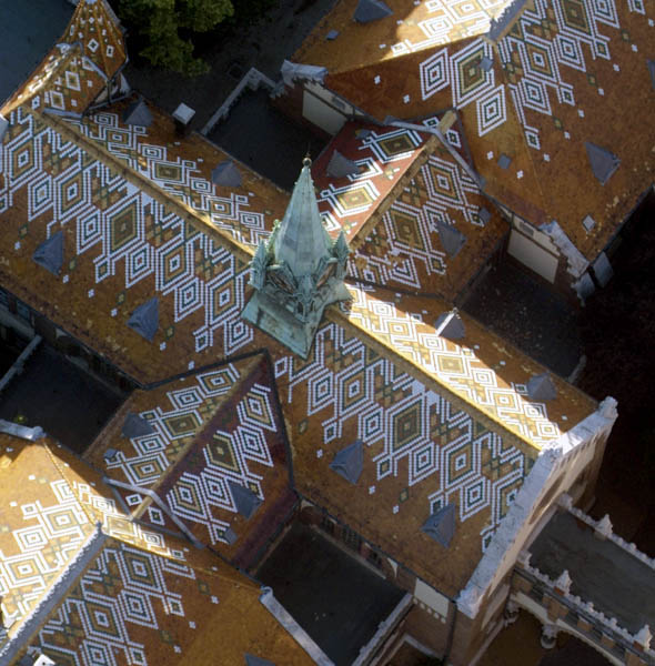 Hungary, Budaest, University of Art and Design